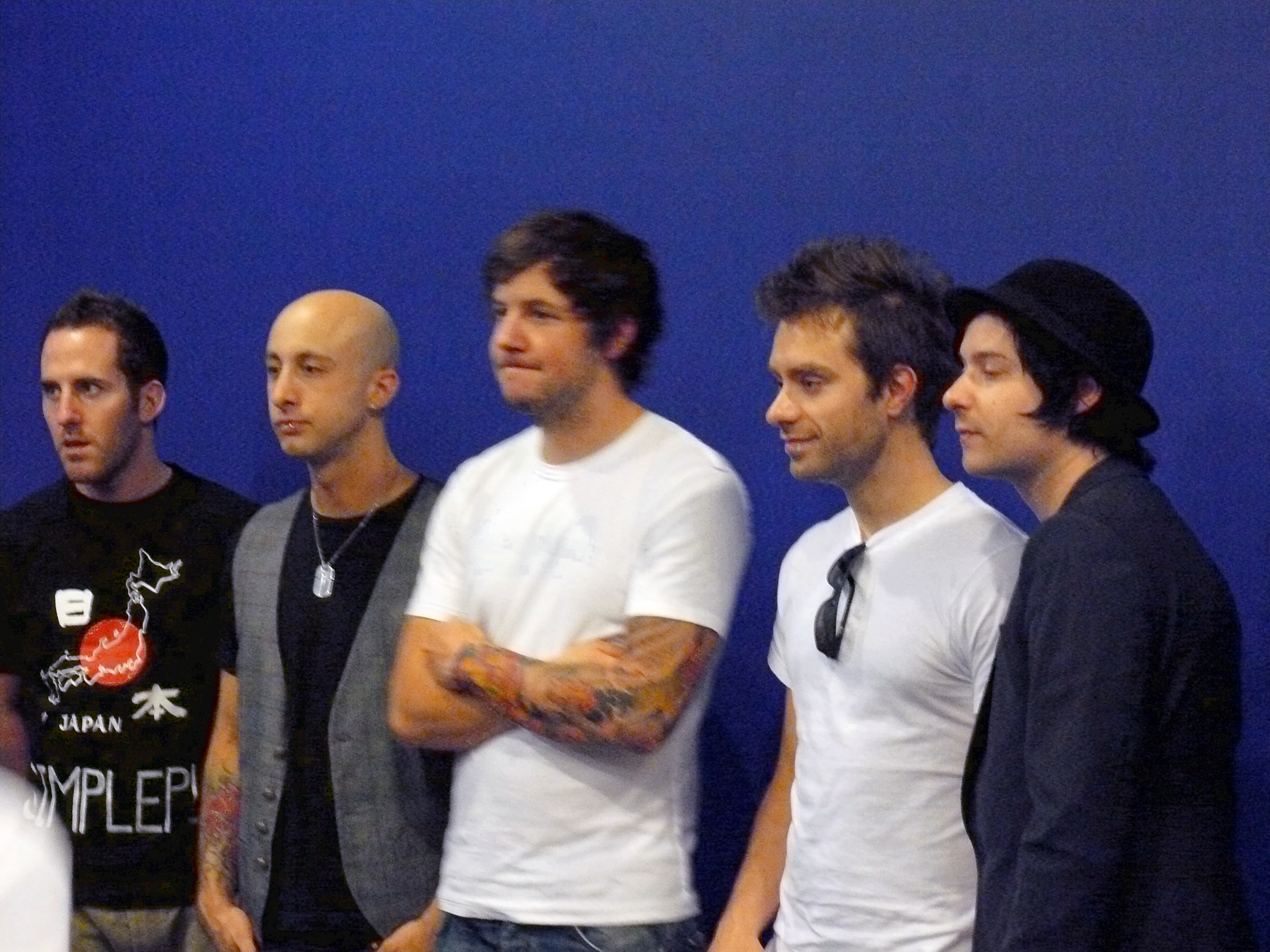 The band "Simple Plan" prepares to pose for fan photos at a "meet n greet" in Osaka, Japan.